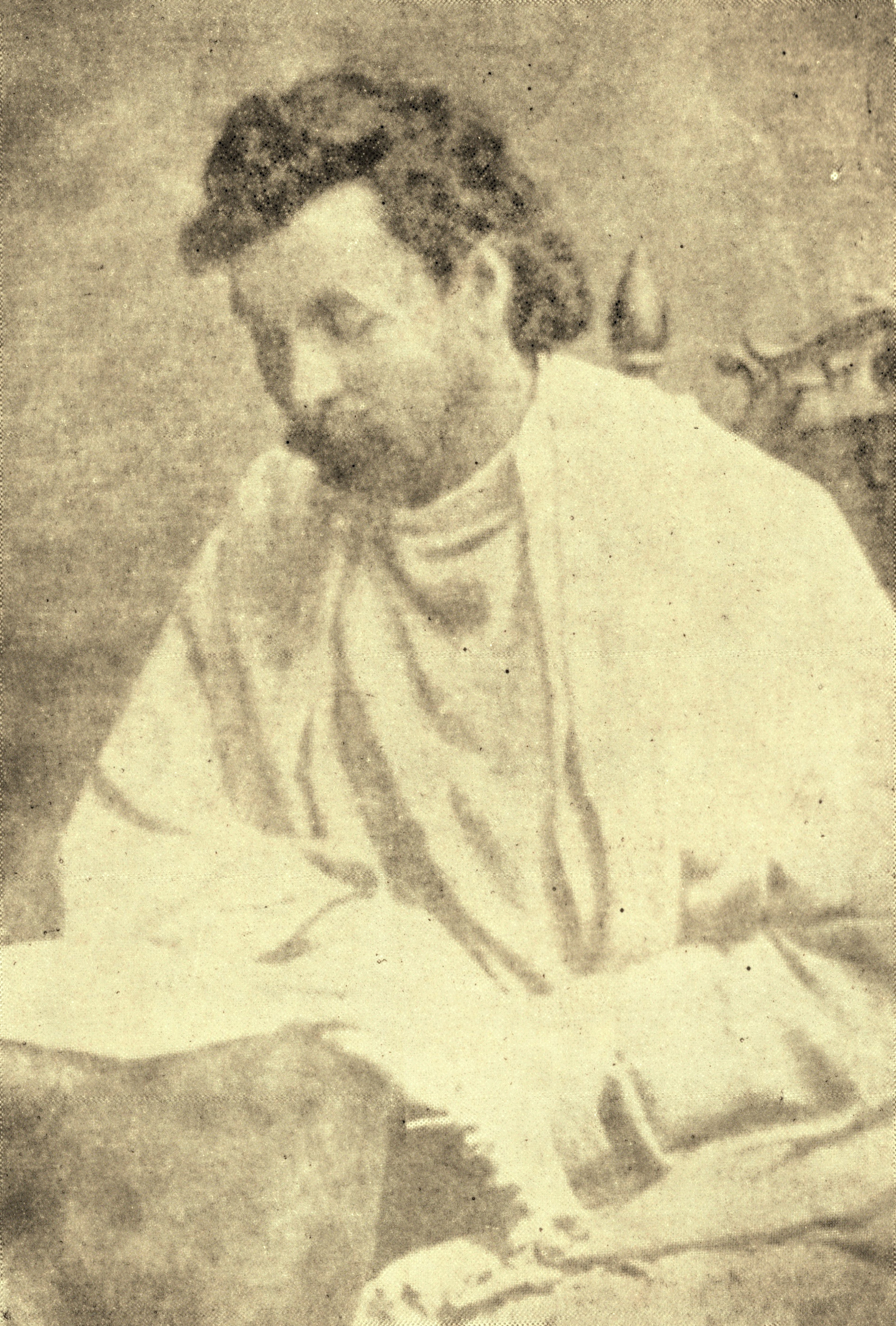 Srimath Anagarika Dharmapala at the age of 29 (1893),A photograph taken in the year of 1893,During World's Parliament of Religions of 1893-held in Chicago U.S.A